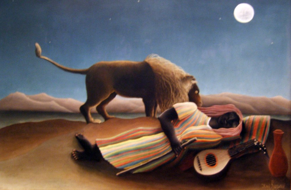 Henri Rousseau. The Sleeping Gypsy. 1897. Oil on canvas, 51" x 6' 7" (129.5 x 200.7 cm). Gift of Mrs. Simon Guggenheim Wikipedia Loves Art at the Museum of Modern Art This photo of item # 646.1939 at the Museum of Modern Art was contributed under the team name "Joey_B" as part of the Wikipedia Loves Art project in February 2009. Museum of Modern Art The original photograph on Flickr was taken by bishop.joann—please add a comment to the original Flickr page whenever a use has been made on Wikipedia or another project. Project galleries on Flickr: this institution, this team Henri Rousseau. The Sleeping Gypsy. 1897. Oil on canvas, 51" x 6' 7" (129.5 x 200.7 cm). Gift of Mrs. Simon Guggenheim Wikipedia Loves Art at the Museum of Modern Art This photo of item # 646.1939 at the Museum of Modern Art was contributed under the team name "Joey_B" as part of the Wikipedia Loves Art project in February 2009. Museum of Modern Art The original photograph on Flickr was taken by bishop.joann—please add a comment to the original Flickr page whenever a use has been made on Wikipedia or another project. Project galleries on Flickr: this institution, this team